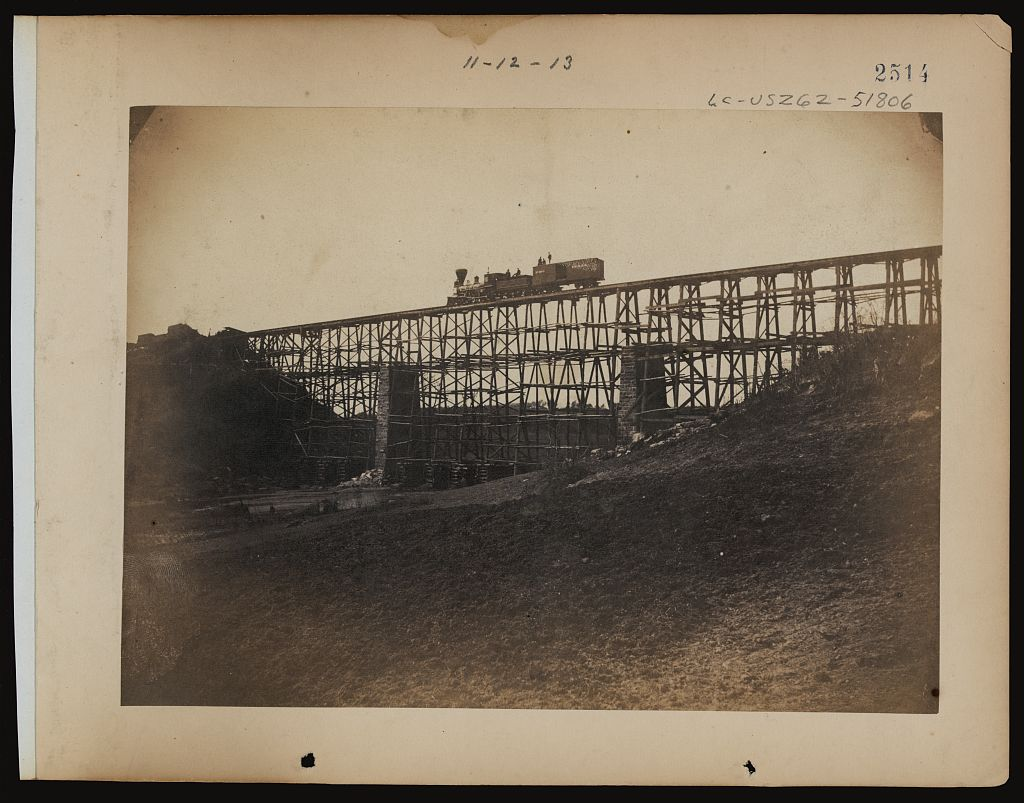 The Haupt bridge across Potomac Creek on the Richmond, Fredericksburg and Potomac Railroad constructed during the Civil War. On May 28, 1862, President Lincoln told members of the War Committee that he had "seen the most remarkable structure that human eyes ever rested upon. That man Haupt [General Herman Haupt, Commander of the United States Military Railroad] has built a bridge four hundred feet long and one hundred feet high, across Potomac Creek, on which loaded trains are passing every hour, and upon my word, gentlemen, there is nothing in it but cornstalks and beanpoles." In May 1862, using unskilled infantry, Haupt rebuilt this destroyed by Confederates bridge in only nine rainy days, however, with considerably more than cornstalks and beanpoles. Medium: 1 photographic print : salted paper. Reproduction Number: LC-DIG-ppmsca-10325 (digital file from original photo, front) LC-DIG-ppmsca-10326 (digital file from original photo, back) LC-USZ62-51806 (b&w film copy neg.) Call Number: LOT 9209, no. 13 [P&P] Repository: Library of Congress Prints and Photographs Division Washington, D.C. 20540 USA